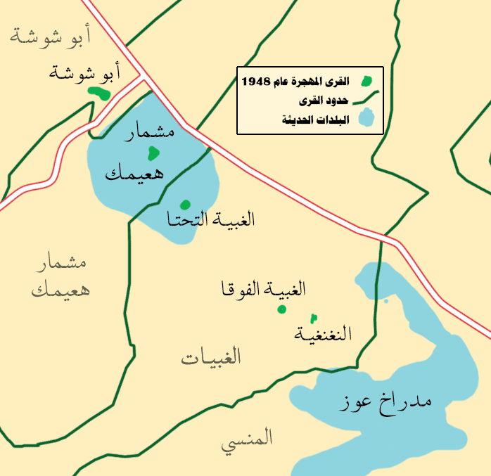 Historical depiction of Mishmar HaEmek region of Israel showing pre-1948 villages and village boundaries.